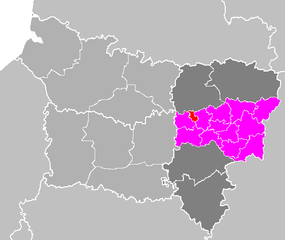 Maps of arrondissements and cantons of France: Arrondissement de Laon